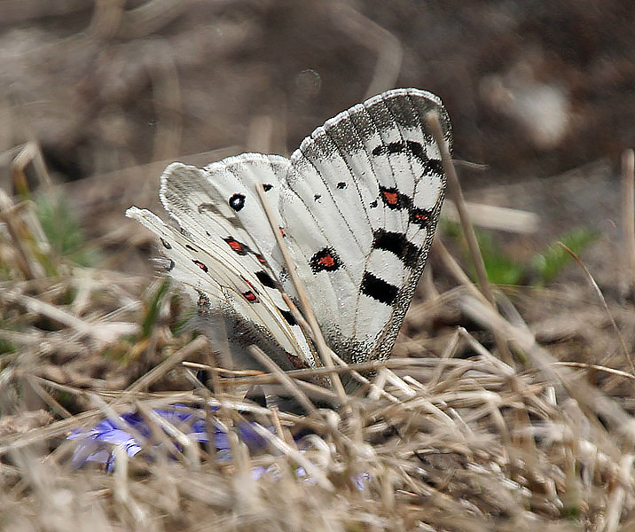 Common Blue Apollo Parnassius hardwickii . Shot taken at Kullu distt. of Himachal Pradesh, India during Sar Pass Trek at Biskeri Ridge (13800 ft.).